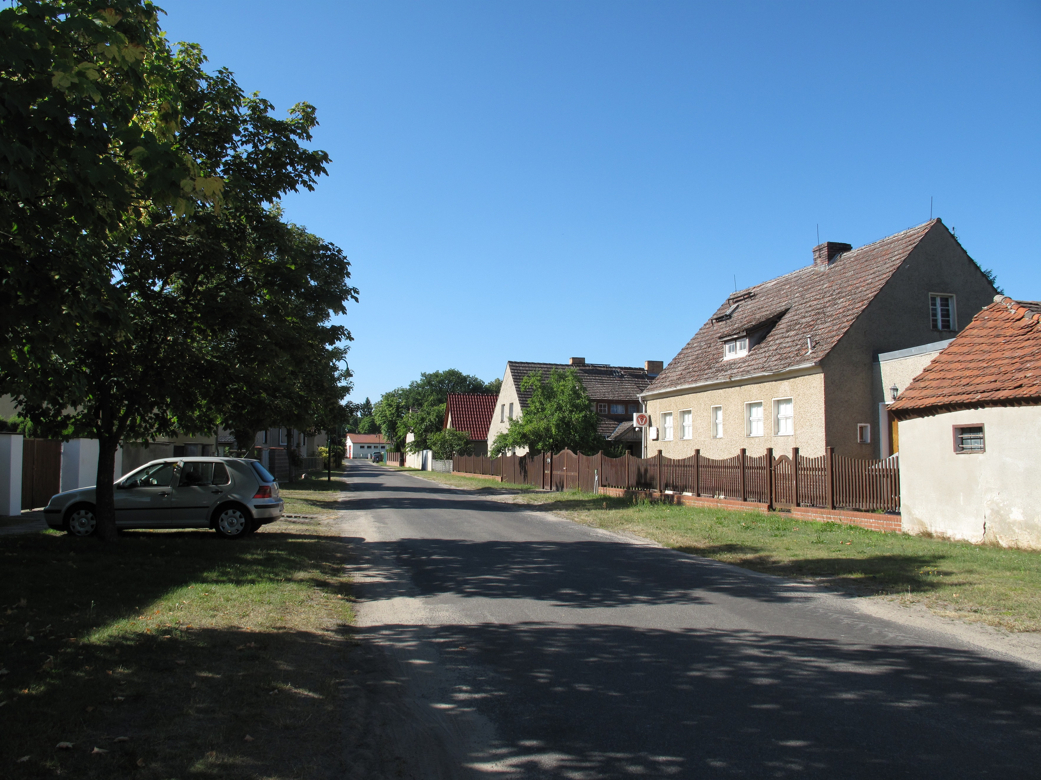 Street „Zum Kutzingsee“, the village-street in Görsdorf. The village Görsdorf is a part of the town Storkow, District Oder-Spree, Brandenburg, Germany. The village was first mentioned in 1209 and had on January 1, 2013 370 inhabitants. It is situated in the Dahme-Heideseen Nature Park.